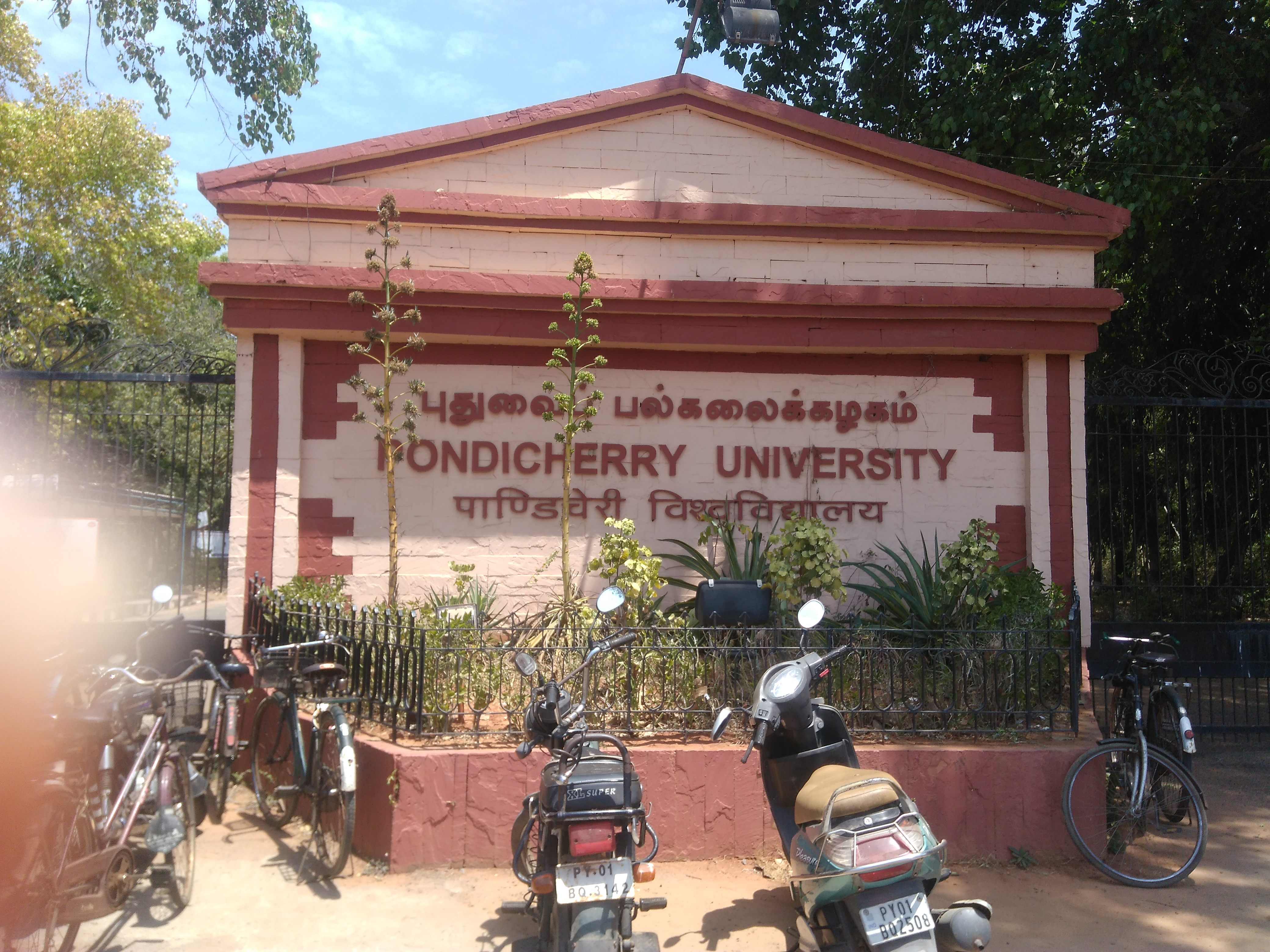 university entrance gate